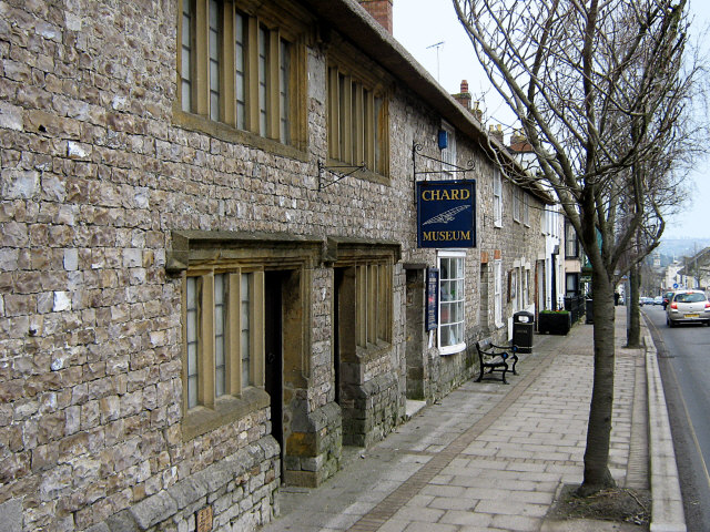 Chard Museum, High Street